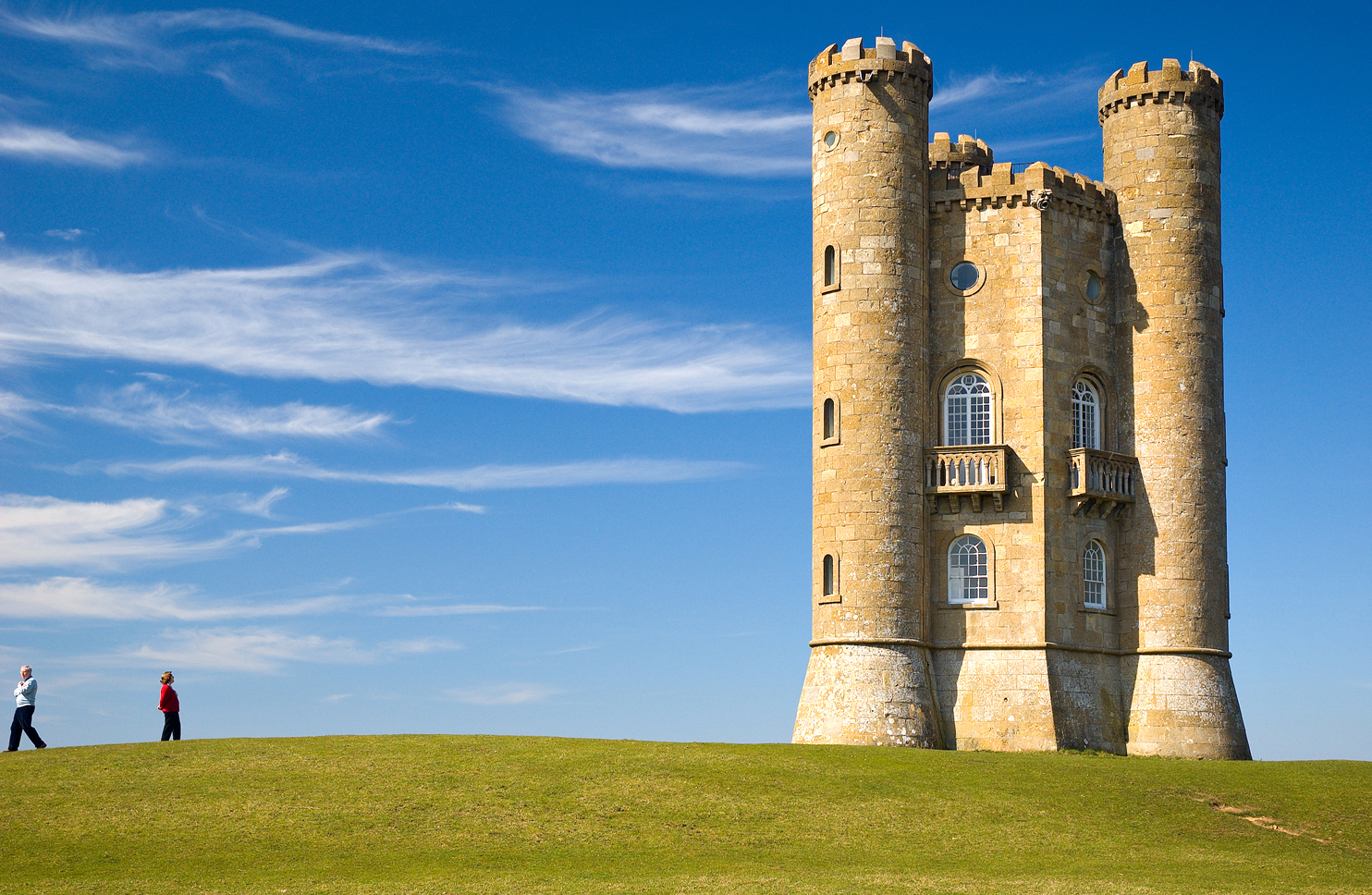 Broadway Tower, Cotswolds, England.